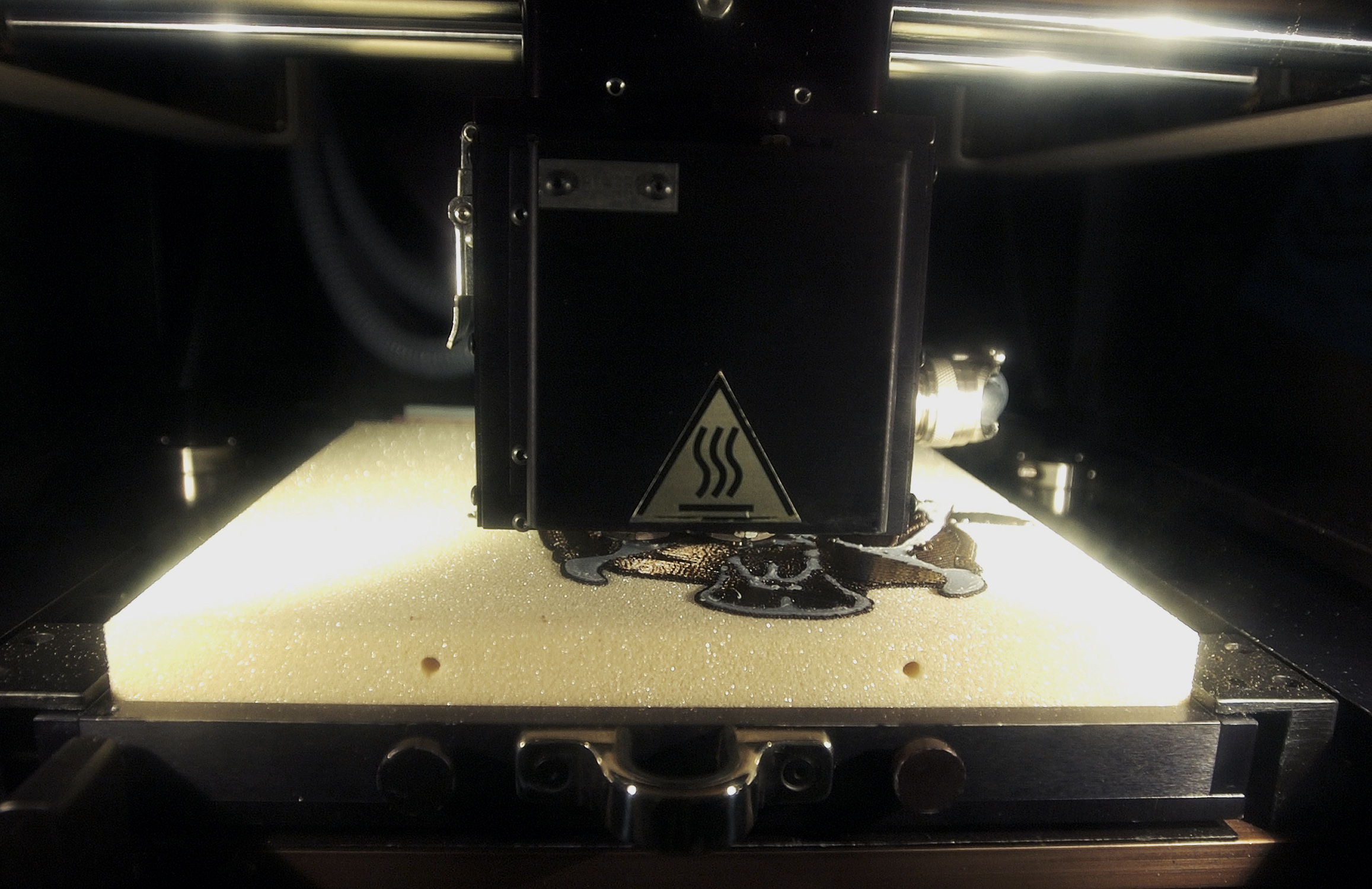 National Naval Medical Center, Bethesda, Md., (August 20, 2003) -- Close-up view of the MedModeler at the National Naval Medical Center in Bethesda, Maryland. The machine uses three dimensional input generated bydata captured from magnetic resonance imaging to create an exact scale model for physicians and surgeons to study. The model created eliminates some probative surgeries and allows a replacement device to be built before surgery. The dark area below is a supportive water soluble base that is later removed, leaving only the full scale model. U.S. Navy photo by Chief Warrant Officer 4 Seth Rossman. (RELEASED)